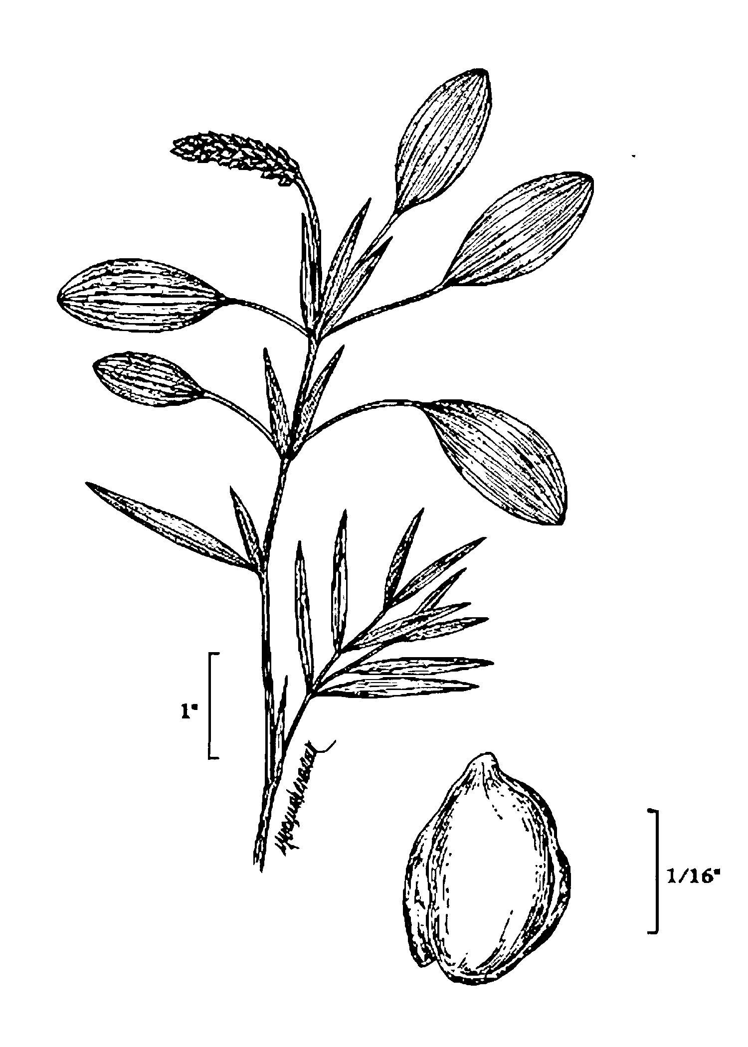 Potamogeton gramineus